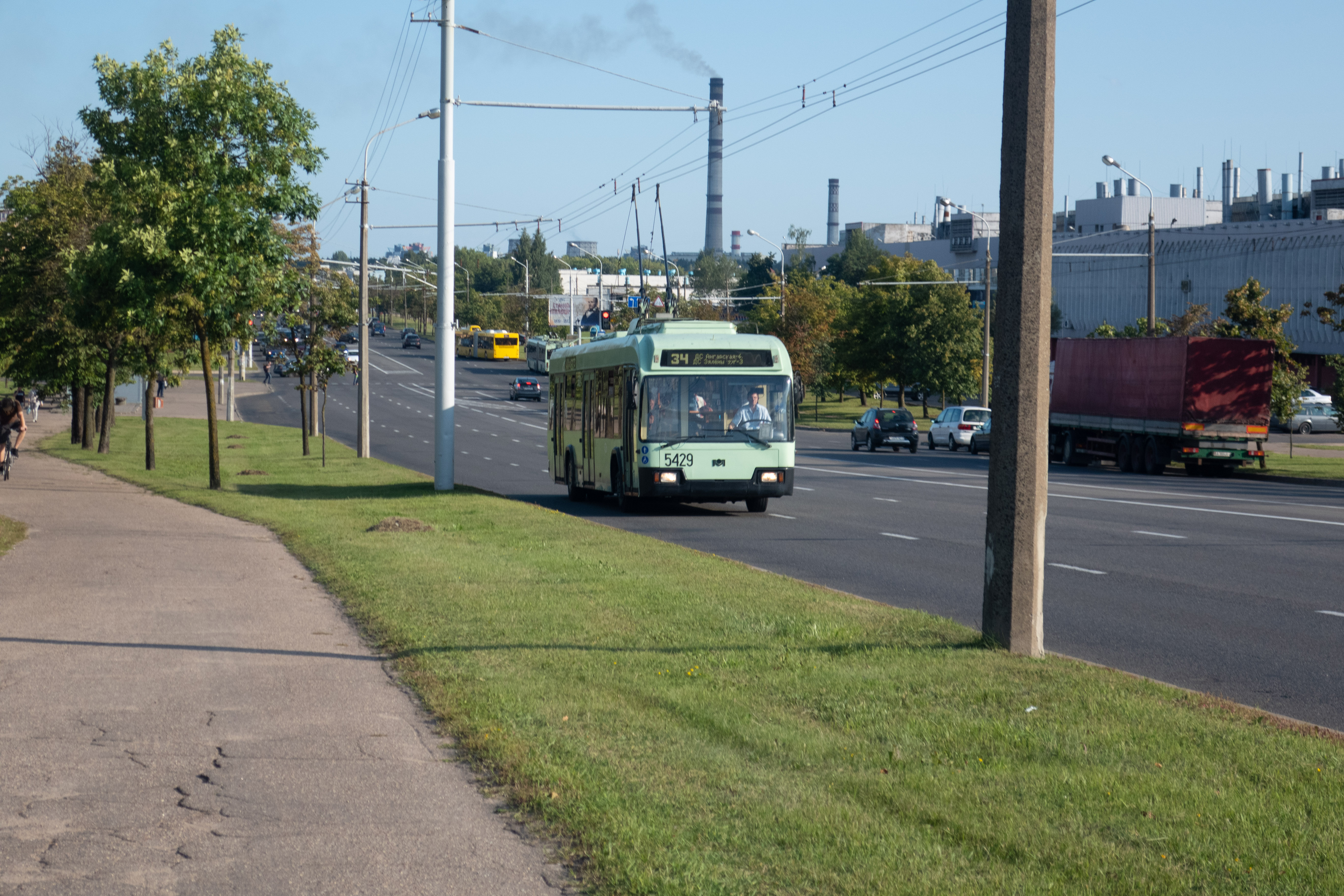 Radyjalnaja street. Minsk, Belarus